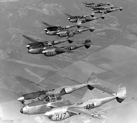 Lockheed P-38L